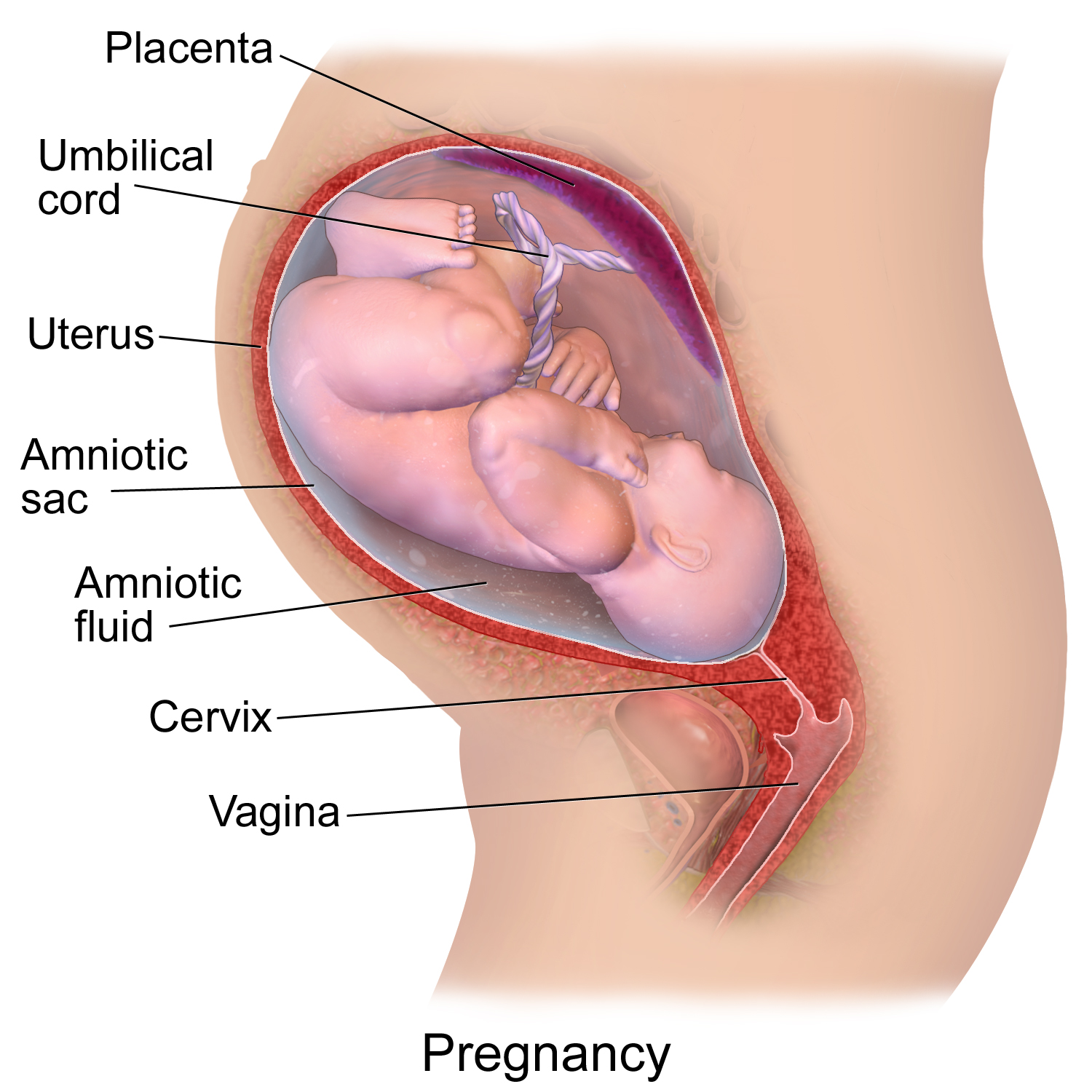 Pregnancy. See a full animation of this medical topic.